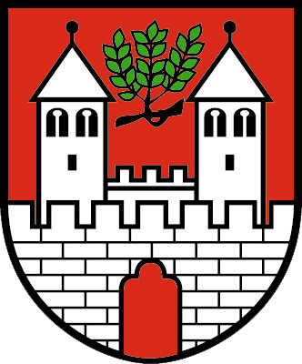 Coat of Arms of Eschwege